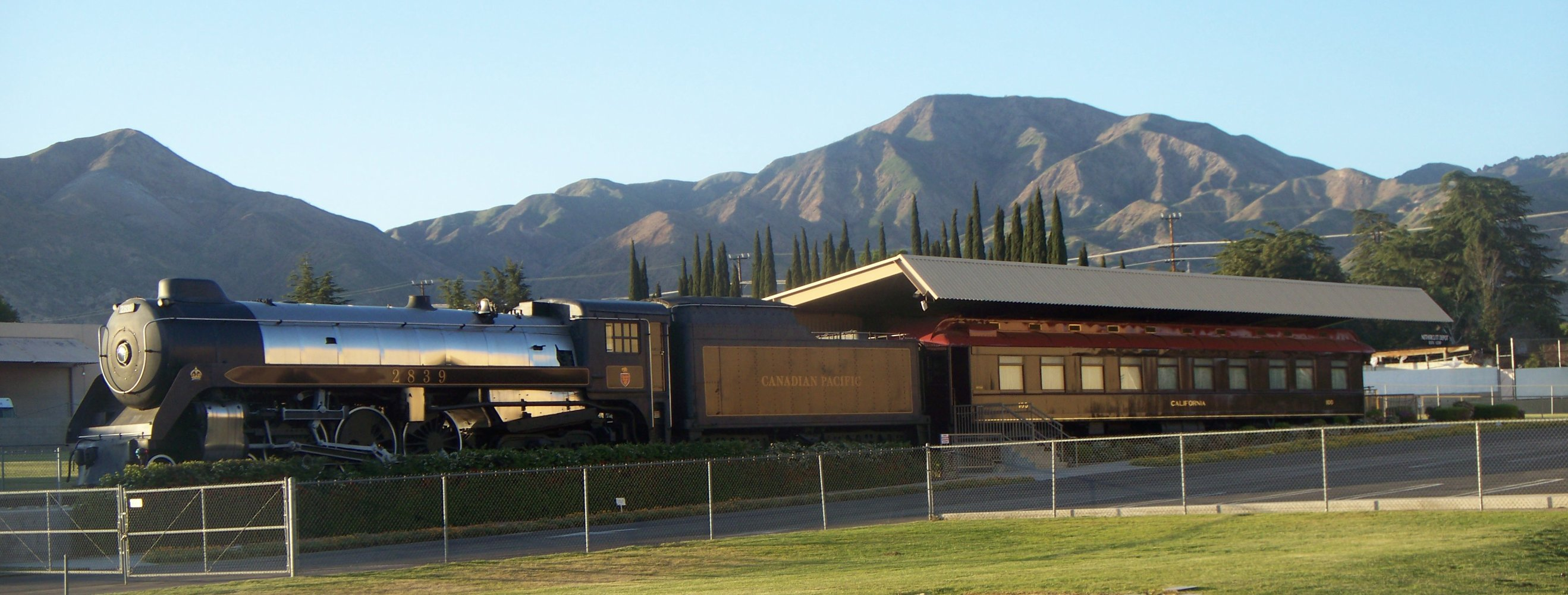 1937 Canadian Pacific Royal Hudson Locomotive #2839: 2839 was built by Montreal Locomotive Works and is resplendent in its Royal maroon, gold leaf, gloss black and brushed stainless steel livery, is a testament to the grand era of steam locomotive engineering. The Hudson type is a 4-6-4 wheel arrangement and was a high-speed passenger locomotive with a top speed of 90 mph. The term Royal Hudson refers to a group of semi-streamlined 4-6-4 Hudson steam locomotives owned by the Canadian Pacific Railway (CPR) and built by Montreal Locomotive Works (MLW). In 1939, King George VI allowed the CPR to use the term after Royal Hudson number 2850 transported the royal train across Canada with no need of replacement. These locomotives were in service between 1937 and 1960. Four of them have been preserved, and one is used for excursion service in British Columbia Royal Hudson 2839, once destined for a museum in eastern Canada, wound up being sold to a group of owners in Pennsylvania. After a restoration to full working order to full CPR livery (with Southern lettering), the engine was leased to the Southern Railway for their steam excursion program in 1979–1980, but was found that the locomotive was not powerful enough for their excursions. During her brief career with the Southern, 2839 earned the nickname "beer can" due to the Royal Hudson's Cylindrical streamlined design. After being returned from the Southern, the engine was stored on Blue Mountain and Reading Railroad before being stored near Allentown, PA. The Blue Mountain and Reading Railroad attempted to restore and run her on excursions, but ultimately 2839 was sold. After a series of owners, the engine was shipped on a flat car from Pennsylvania to the Nethercutt Collection in Sylmar, California, where it has been cosmetically restored and put on display outside the museum with a Pullman car. Link to before restoration